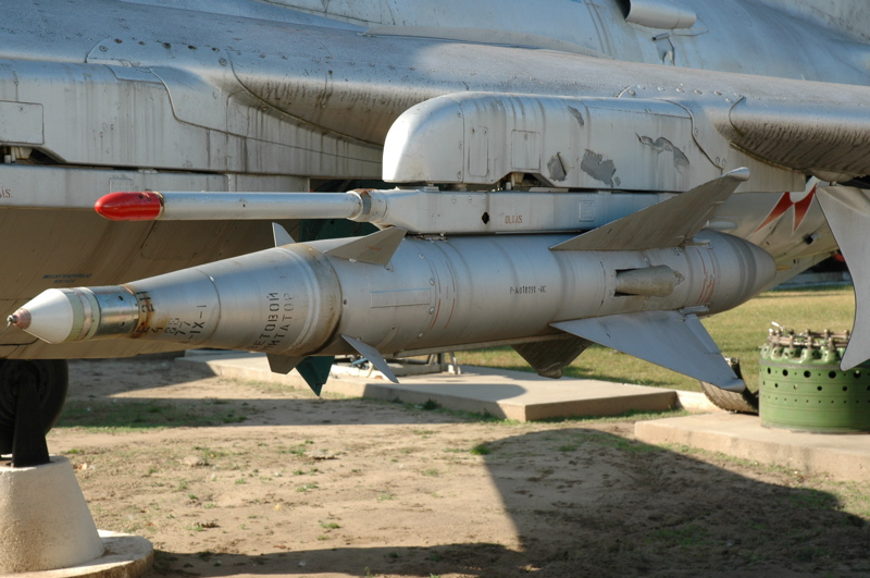 K-5M (AA-1 Alkali) Soviet Air-to-Air Missile on MiG-19. Displayed in the Army History Museum and Park in Kecel, Hungary